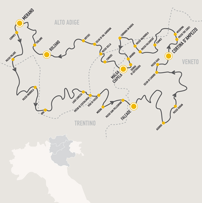 Route of the 2013 reenactment automobile race Coppa d'Oro delle Dolomiti